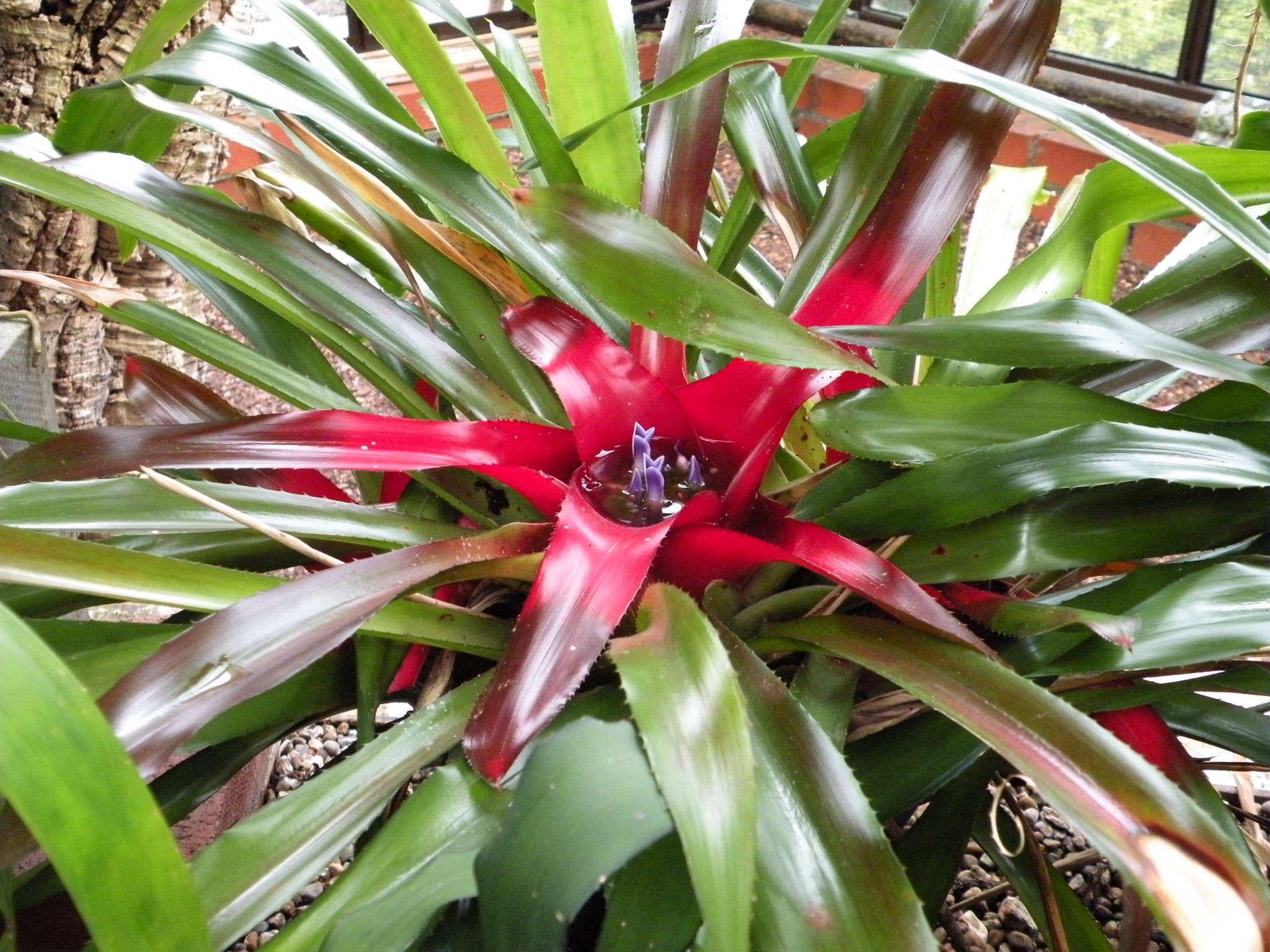 Neoregelia princeps. Glasgow Botanic Gardens.